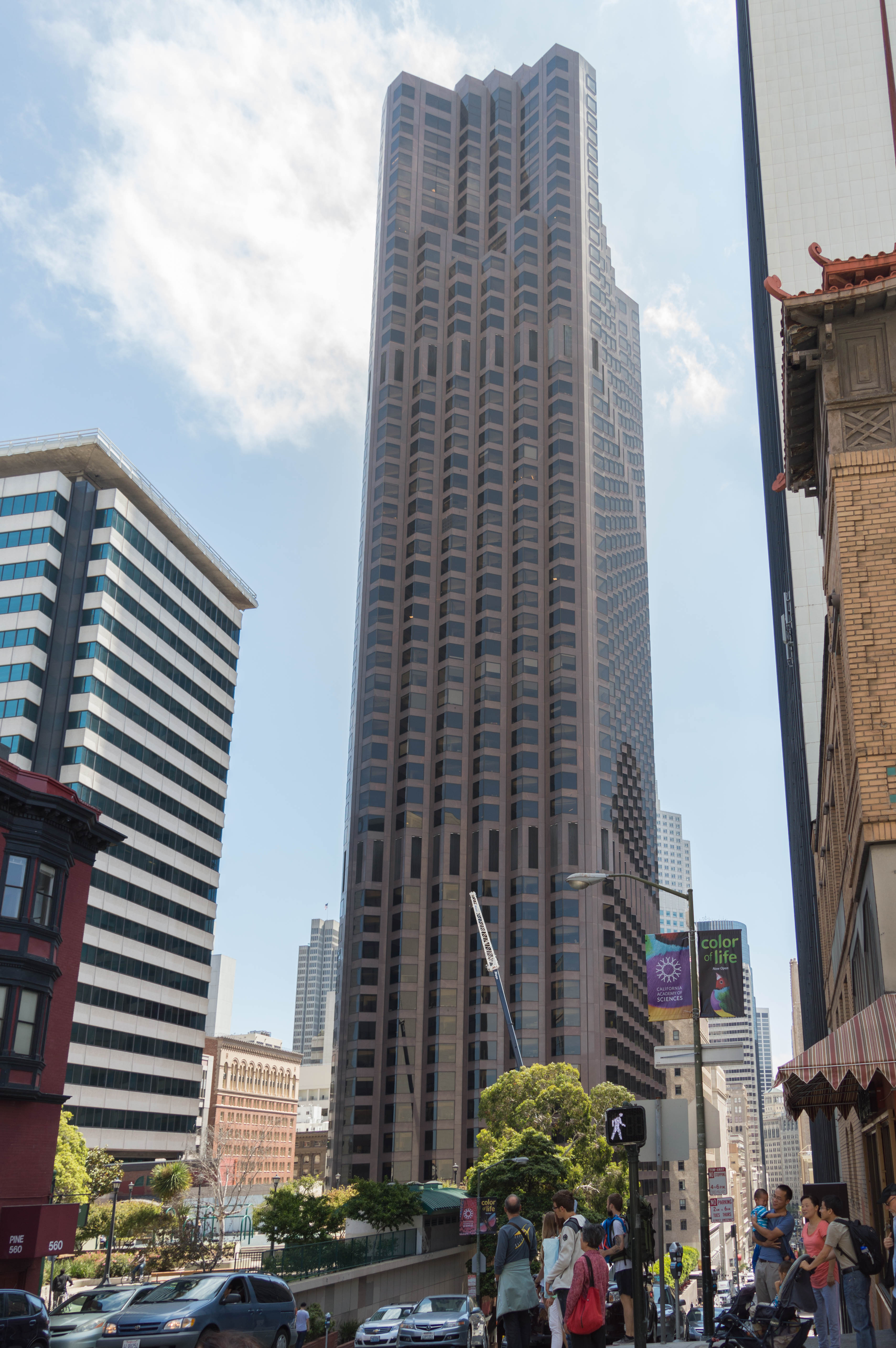 555 California Street in the city of San Francisco.